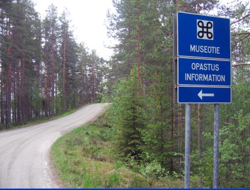 Museum Road (connecting road 5077) of Vorna, Kelvä, Lieksa